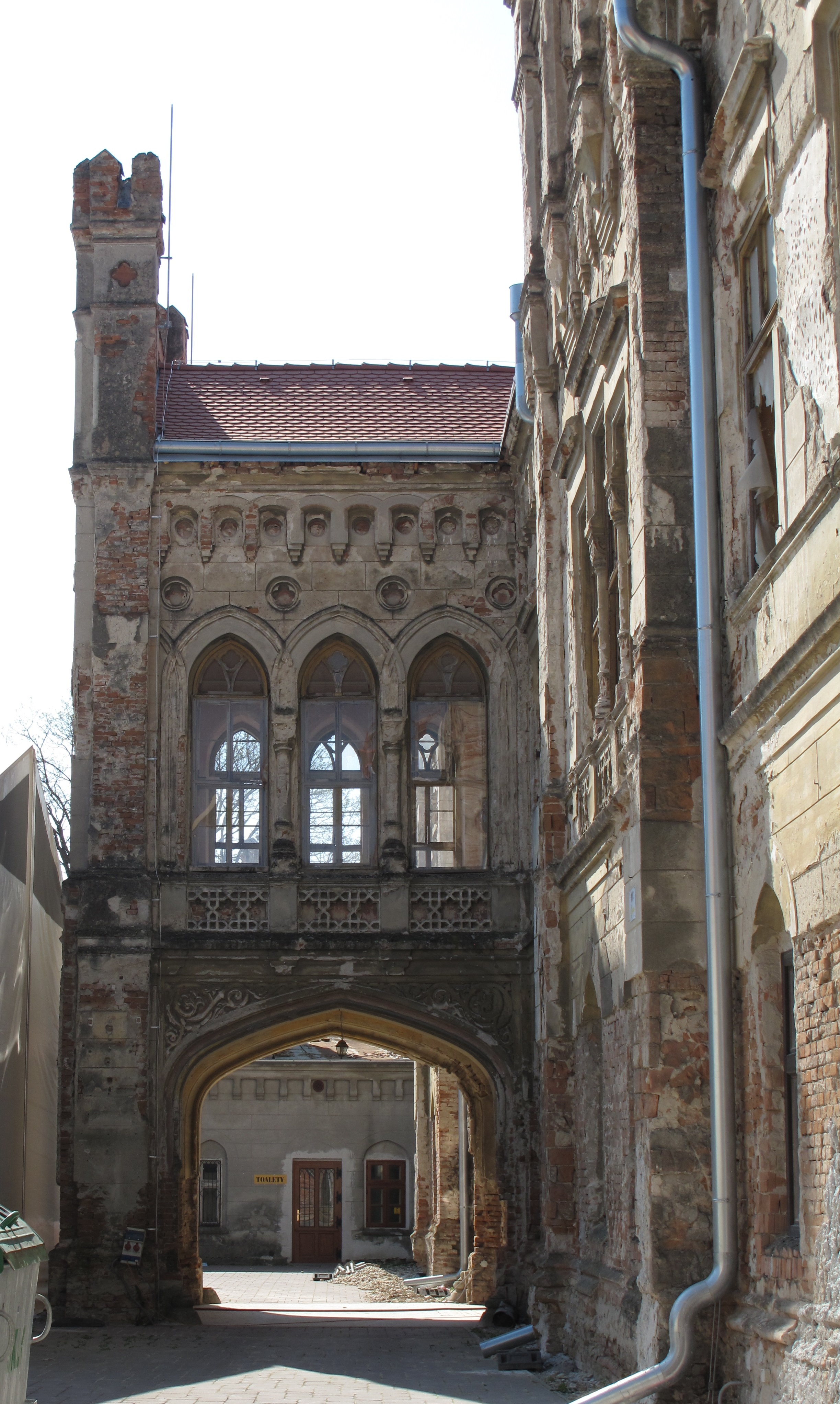 The main enterance, one part triumphal arc look-alike